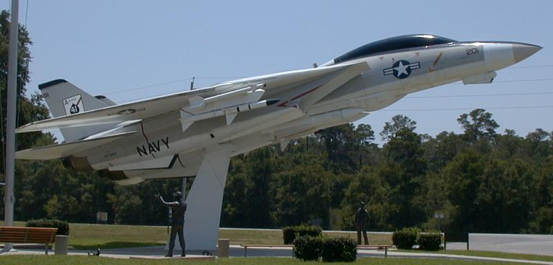 A U.S. Navy Grumman YF-14A Tomcat (BuNo 157984) at the U.S. National Museum of Naval Aviation, Pensacola, Florida (USA).